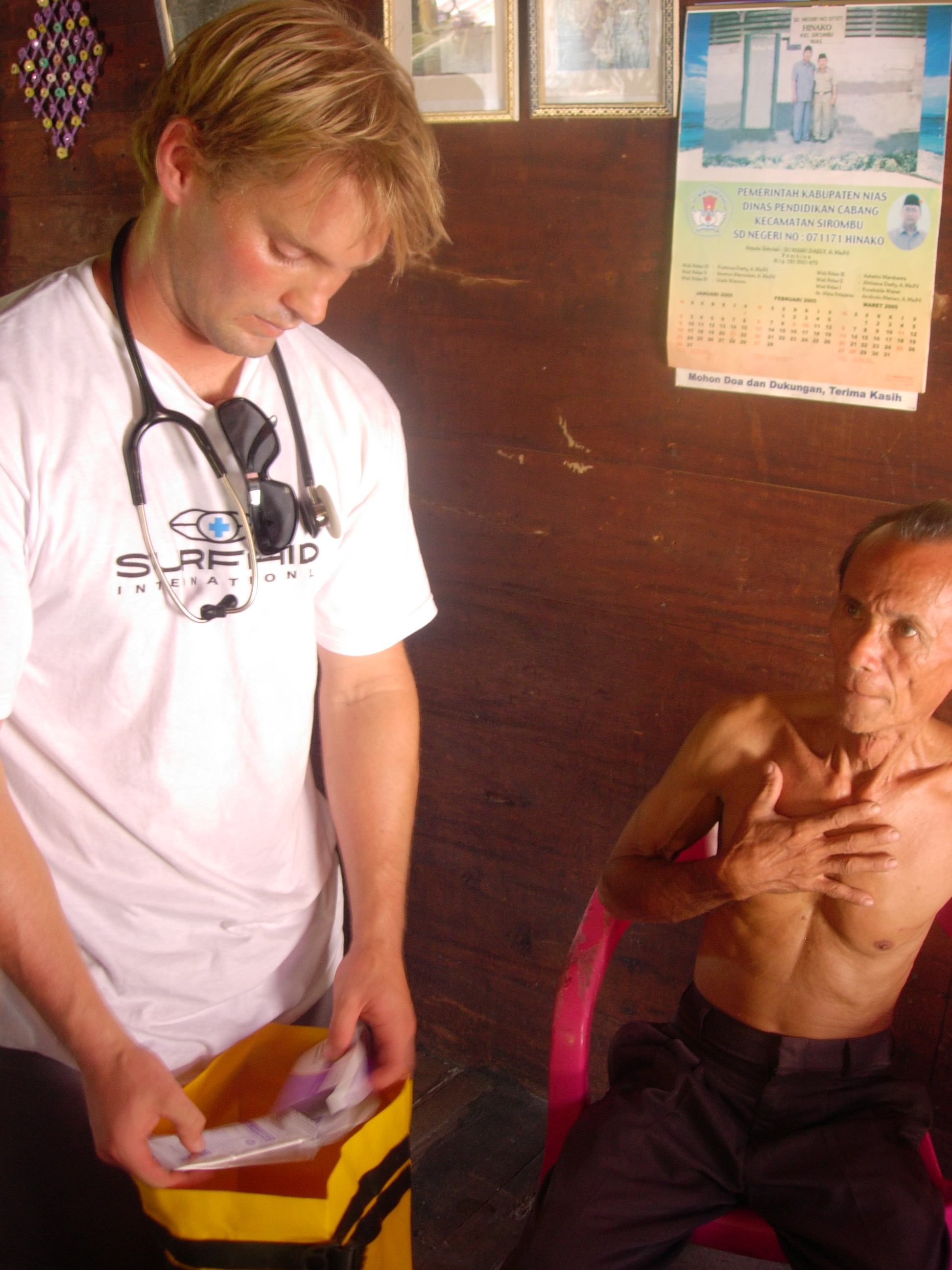 Medical treatment on Hinako Island after 2004 tsunami. Indonesia 2005. Photo: AusAID